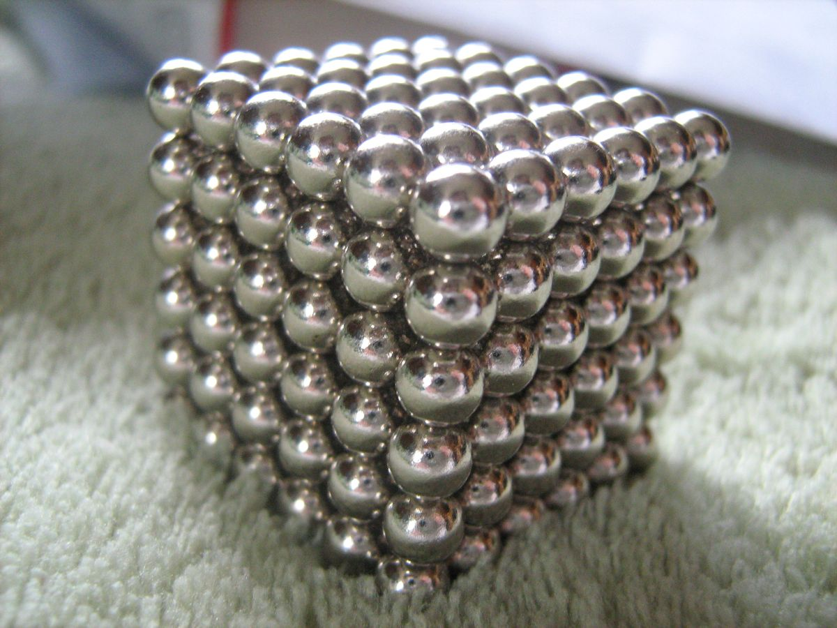 A constructed NeoCube.